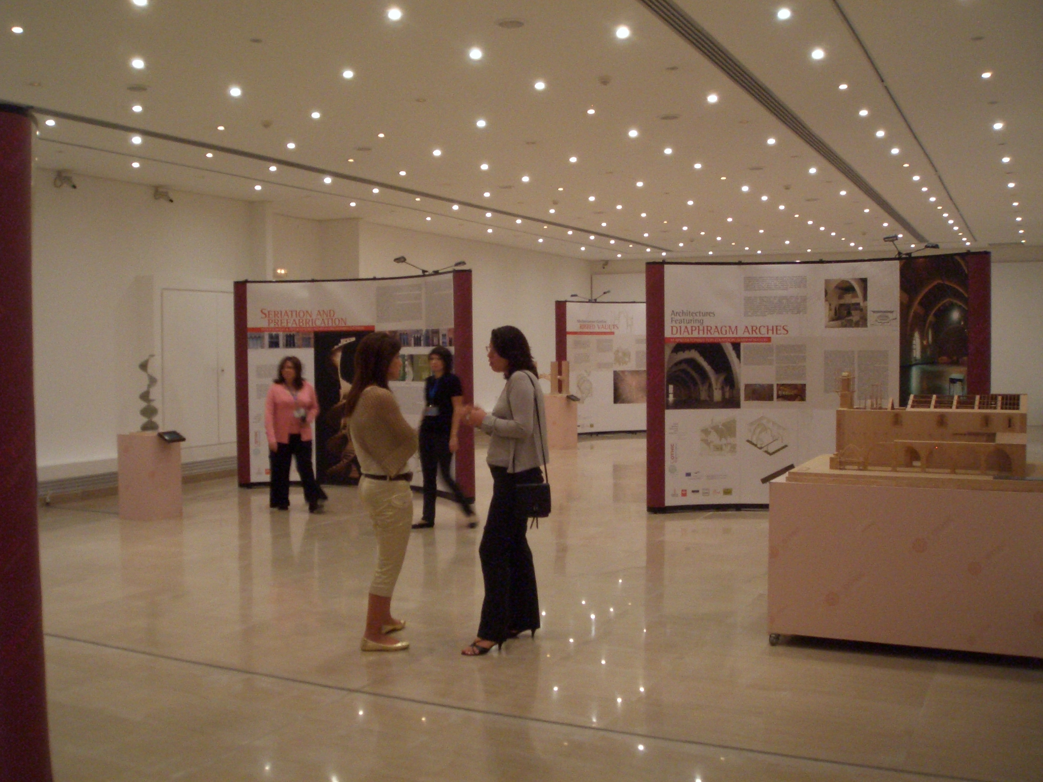 GOTHICmed travelling exhibition in Athens